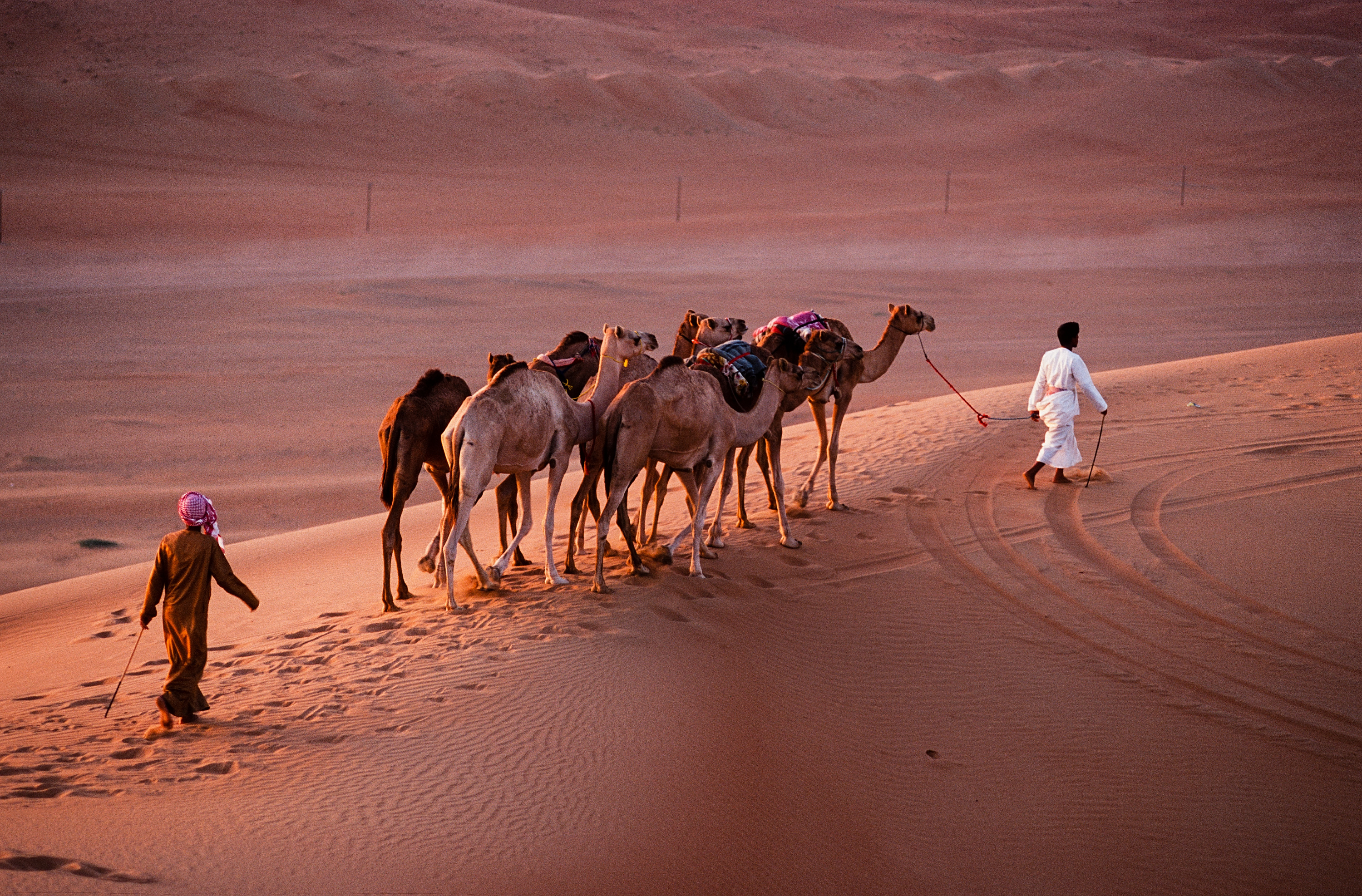 wahiba sands nomads